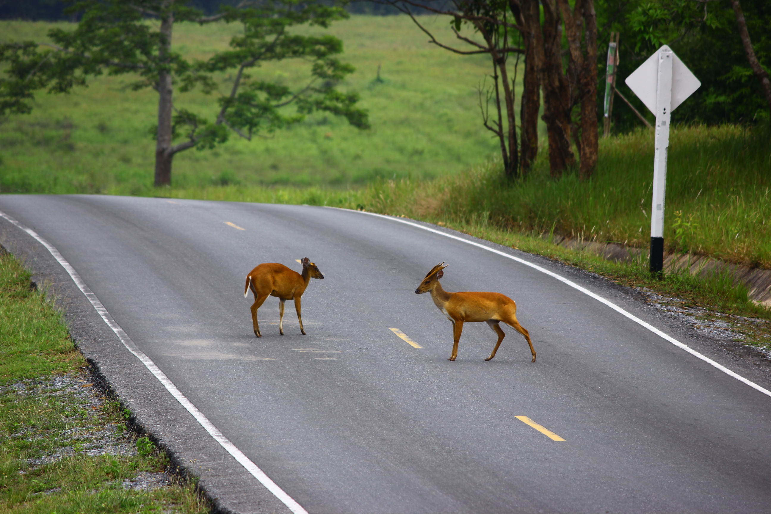 Love this place